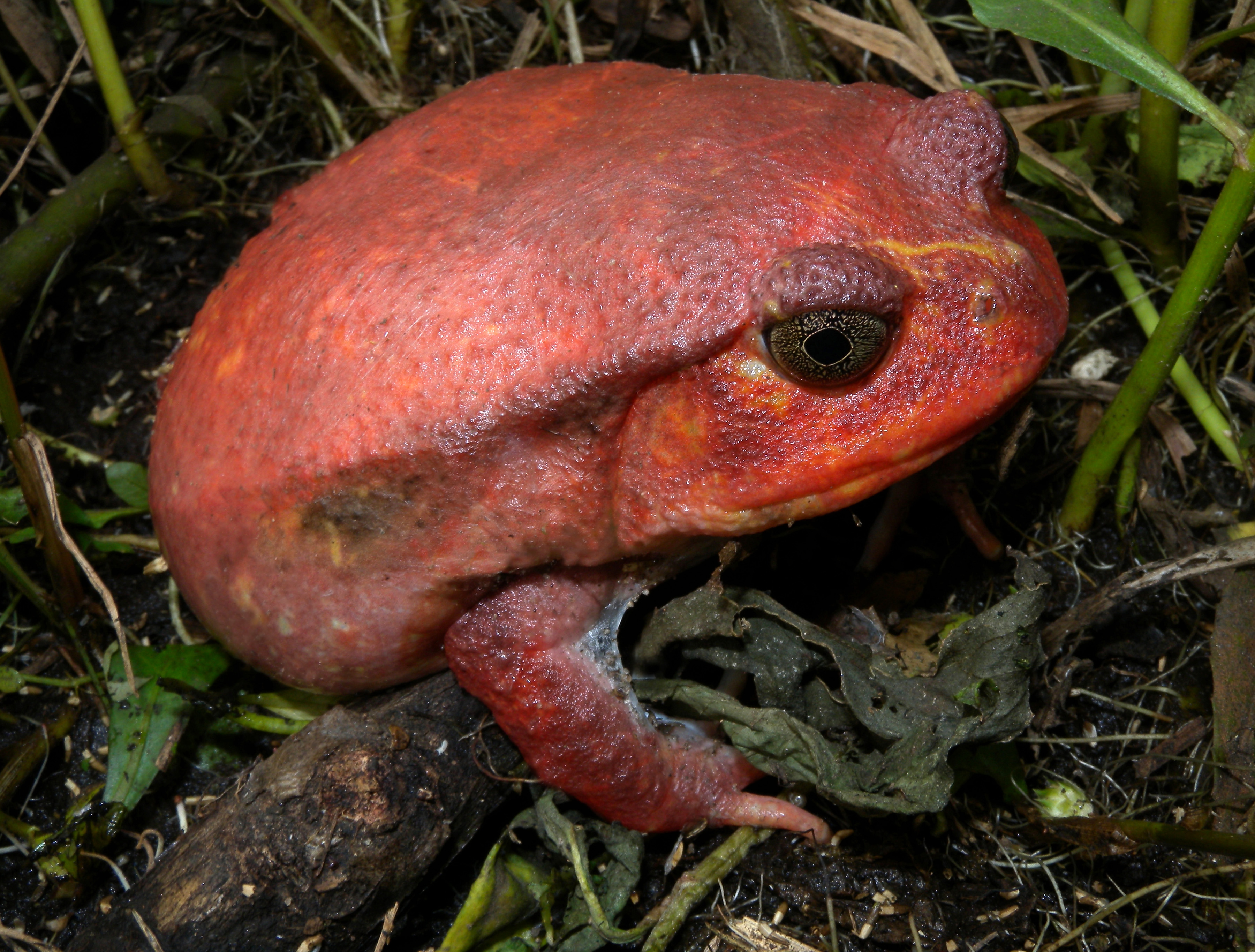 The Madagascar Tomato Frog (Dyscophus antongilli) is a rather large terrestrial microhylid that ranges along the northeastern coast of Madagascar from Antongil Bay south to Andevoranto.